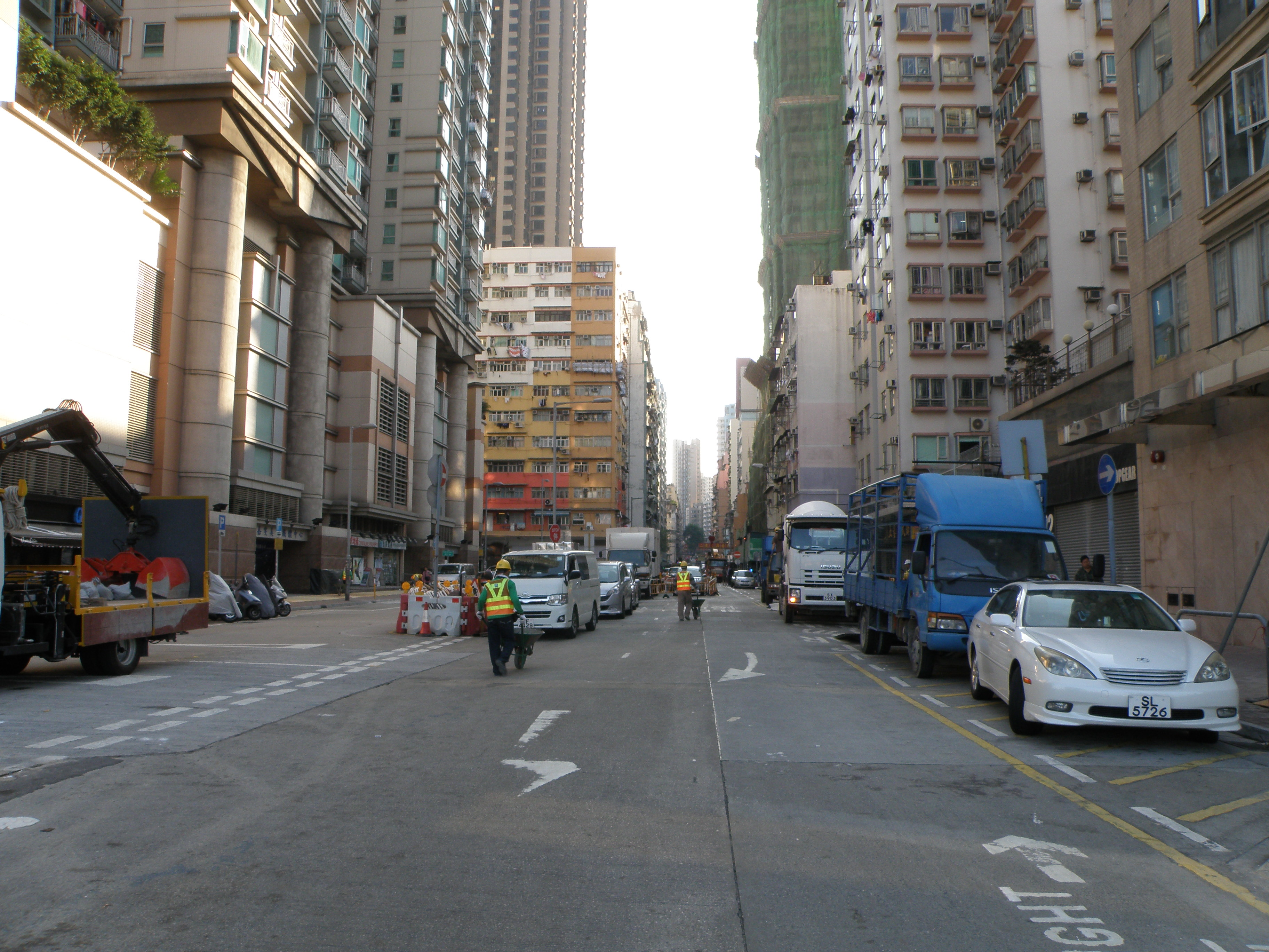 Pak Tai Street in To Kwa Wan, Hong Kong.